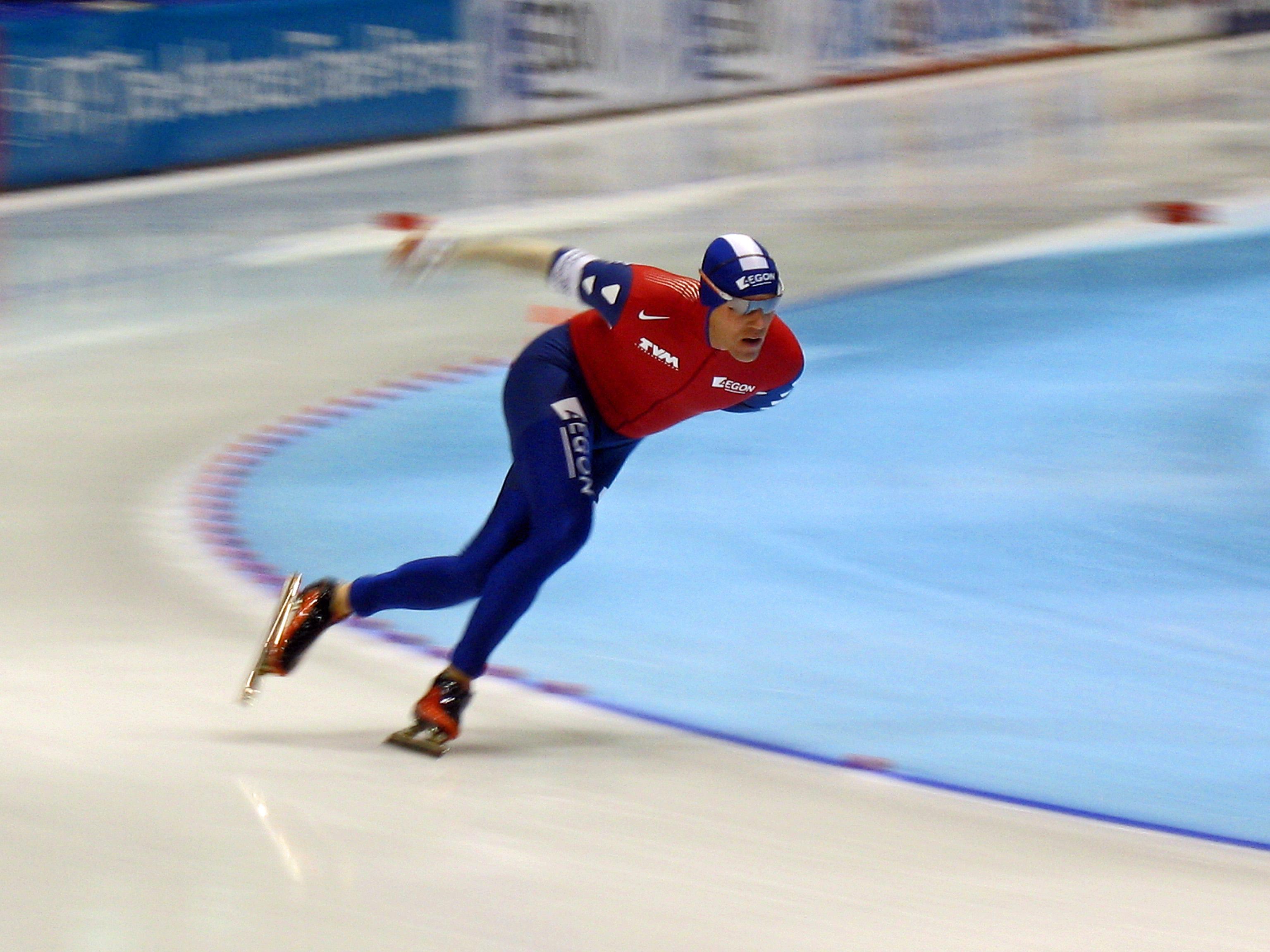 Carl Verheijen racing 5.000m World Cup Heerenveen november 2008